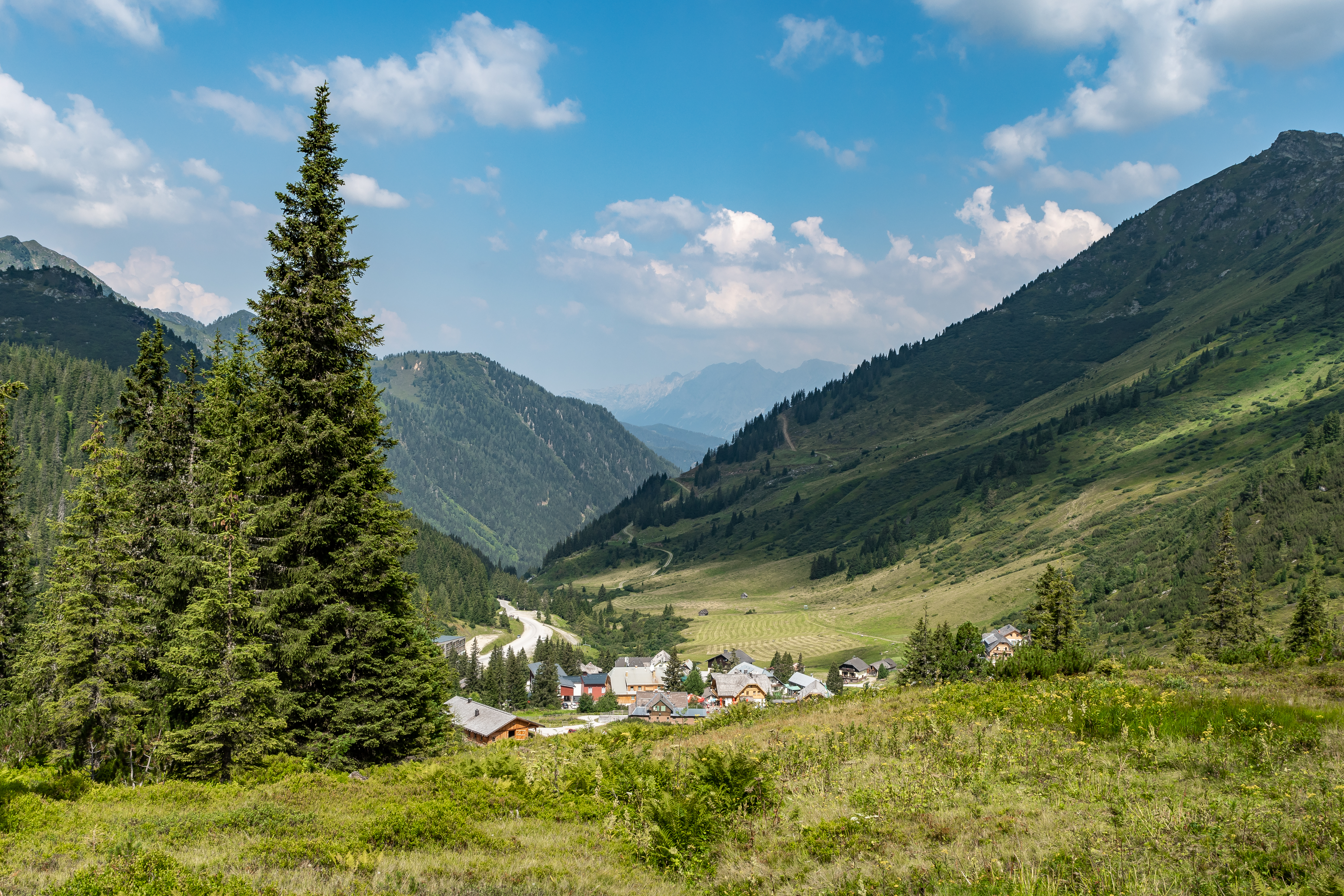 Pasture Planner is a small skiing and hiking resort in Styria